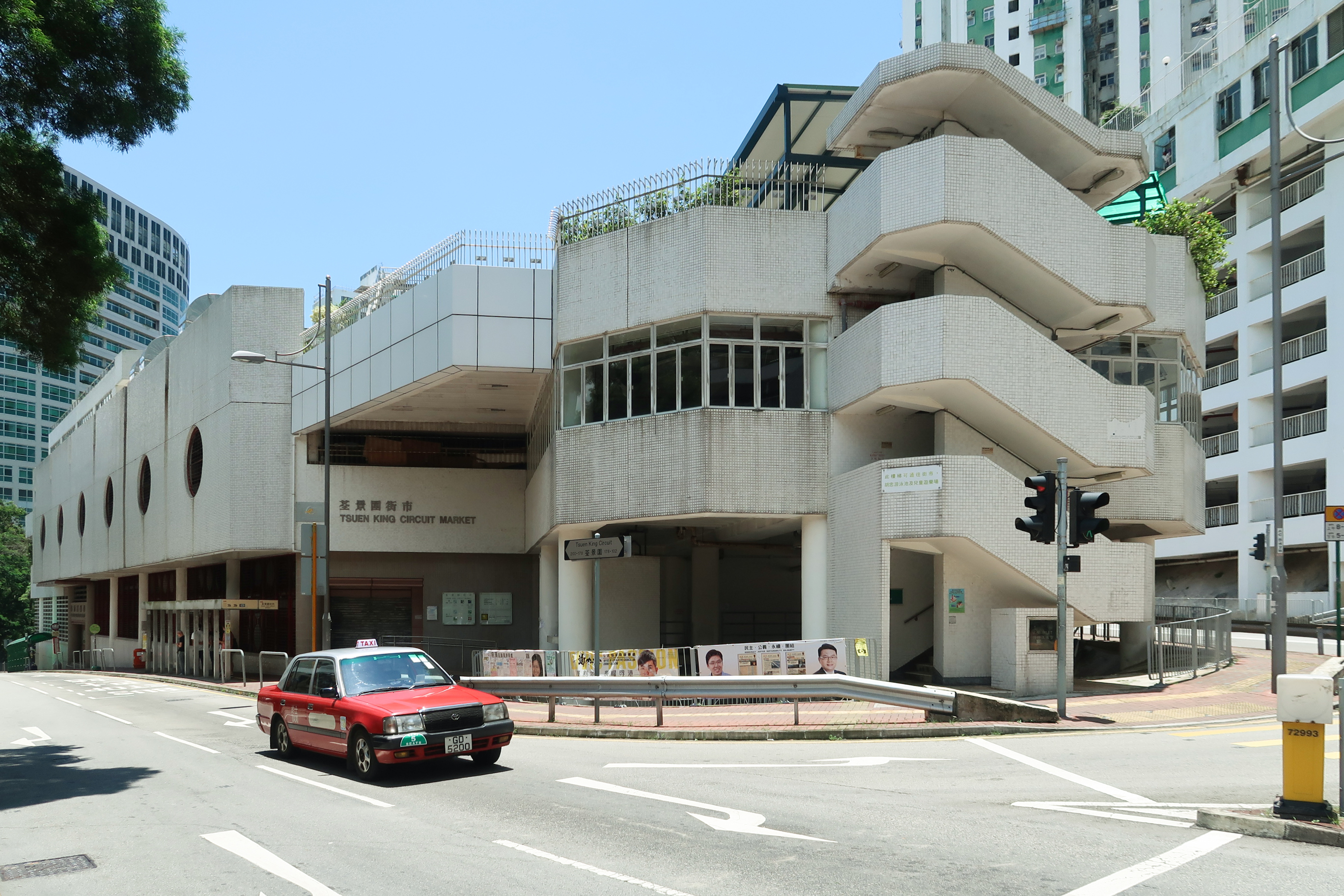 Tsuen King Circuit Market